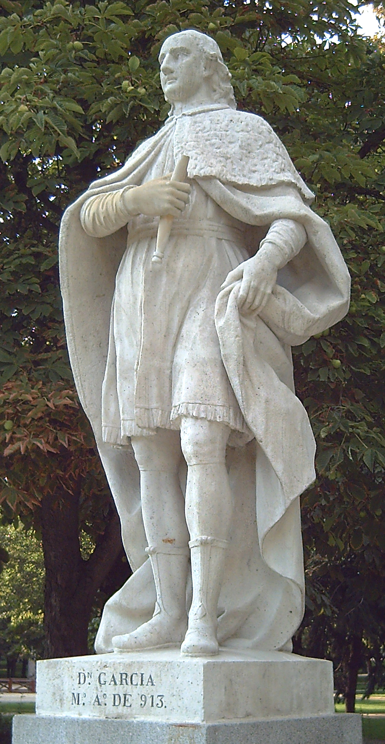 Statue of García I of León (c.870–914) at the Paseo de la Argentina (a walk) in the Retiro Park (Jardines del Buen Retiro) in Madrid (Spain). Sculpted in white stone by Philippe Boiston between 1750 and 1753.